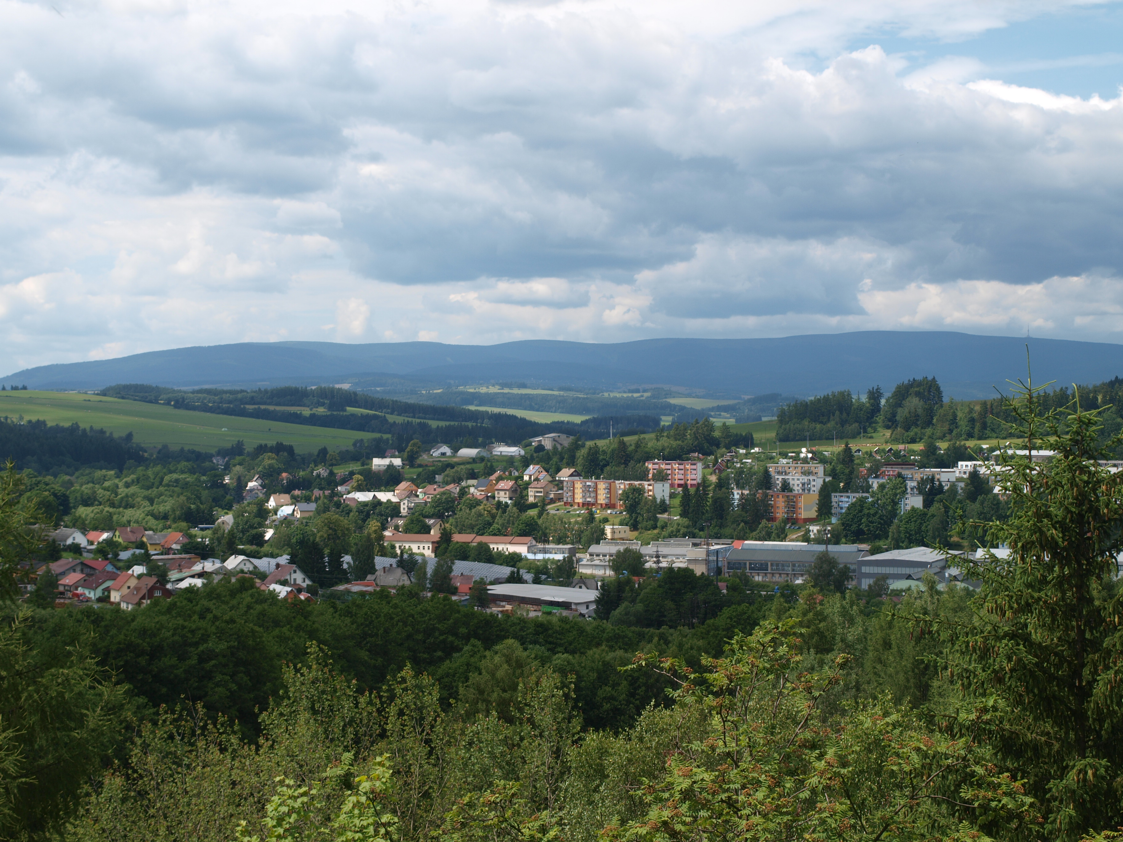 Břidličná, Bruntál District, Czechia.